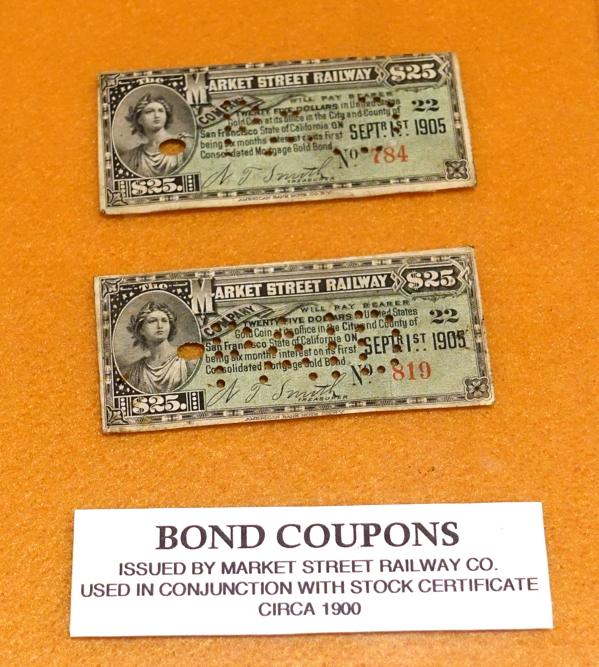 San Francisco Cable Car Museum- San Francisco, California, USA.